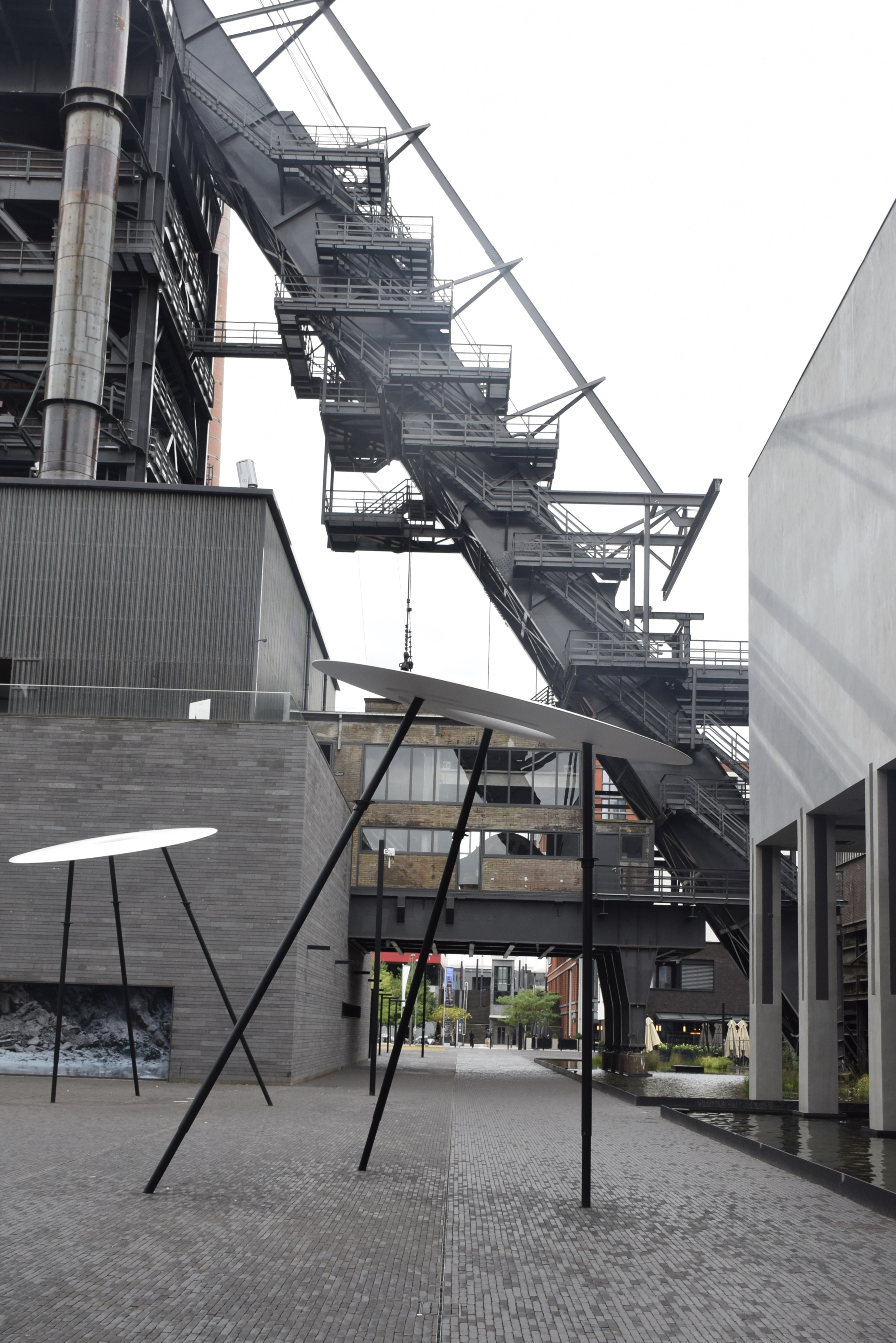 Ënnert den Héichiewen; pedestrian zone underneath the former blast furnaces A and B of steel works Belval, Esch-sur-Alzette, Luxembourg.